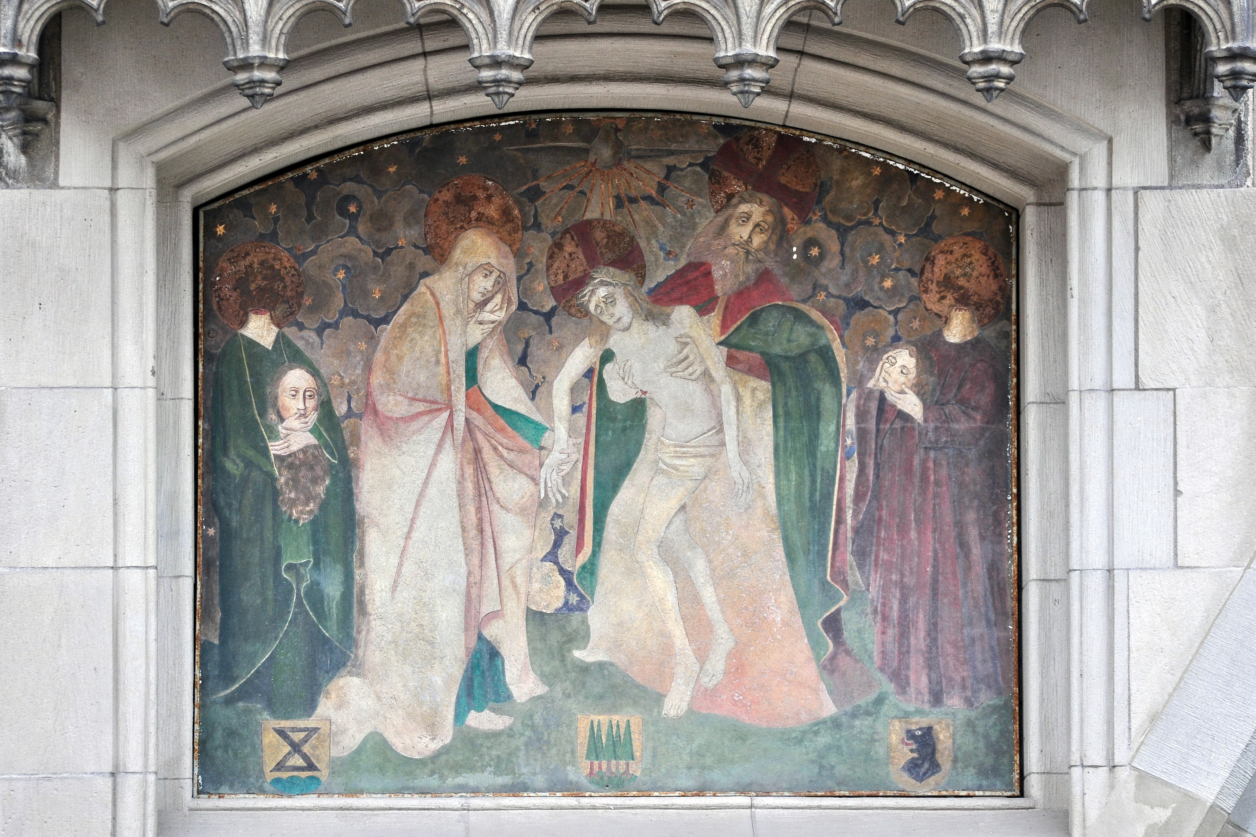 Zürich, Fraumünster : Mural showing holy Trinity and Felix and Regula. Replica at the northern portal at Münsterhof, given in 1478 A.D. by Hans Waldmann (* 1435; † 1489).